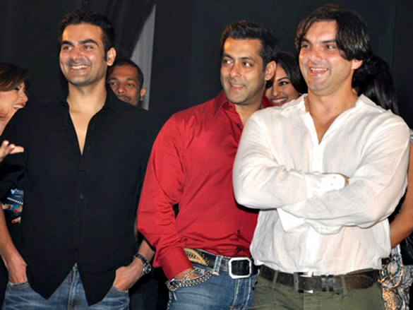 Arbaaz Khan, Salman Khan, Sohail Khan at launch of site at JW Marriott, Juhu